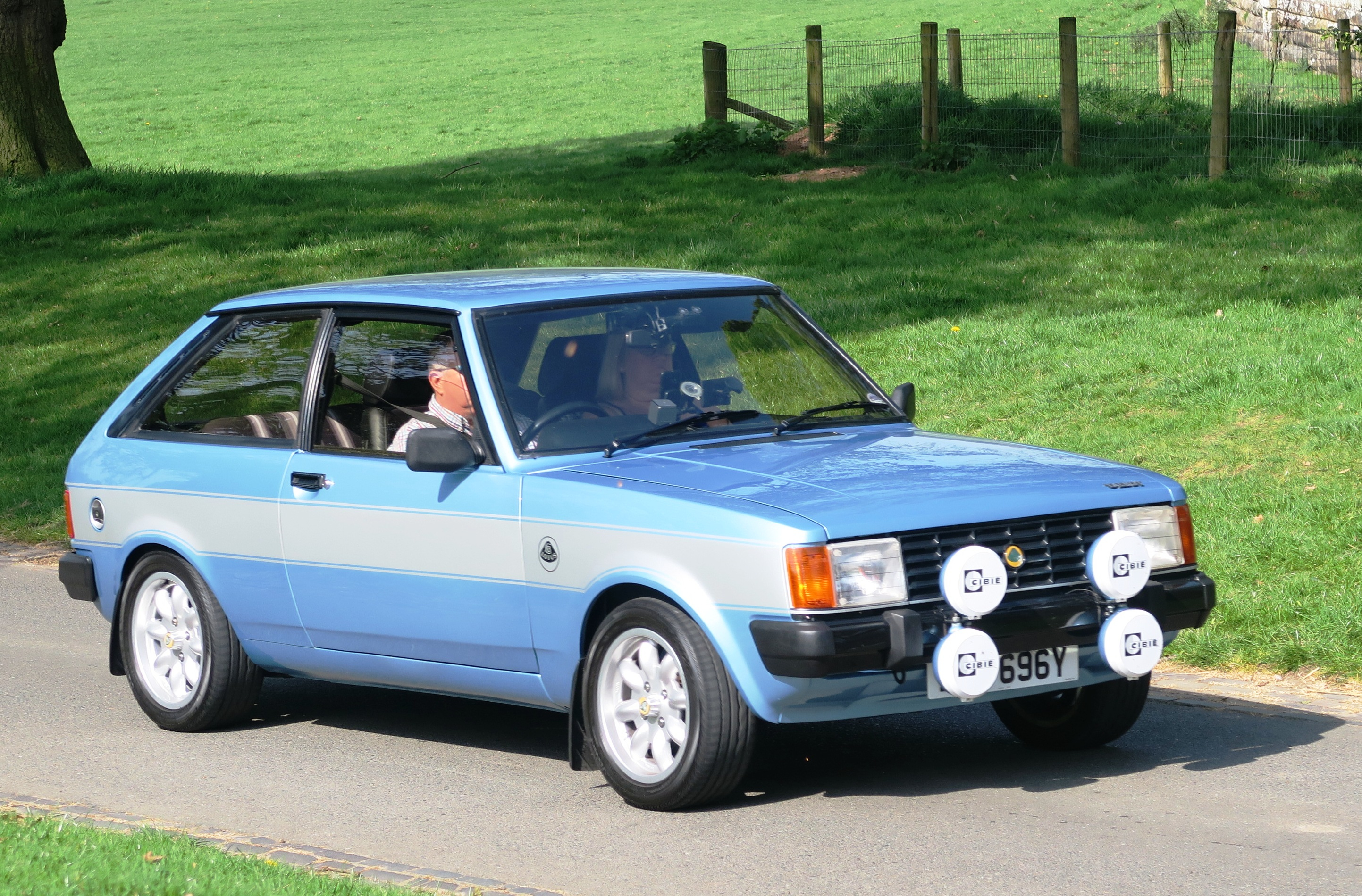 Talbot Sunbeam Lotus